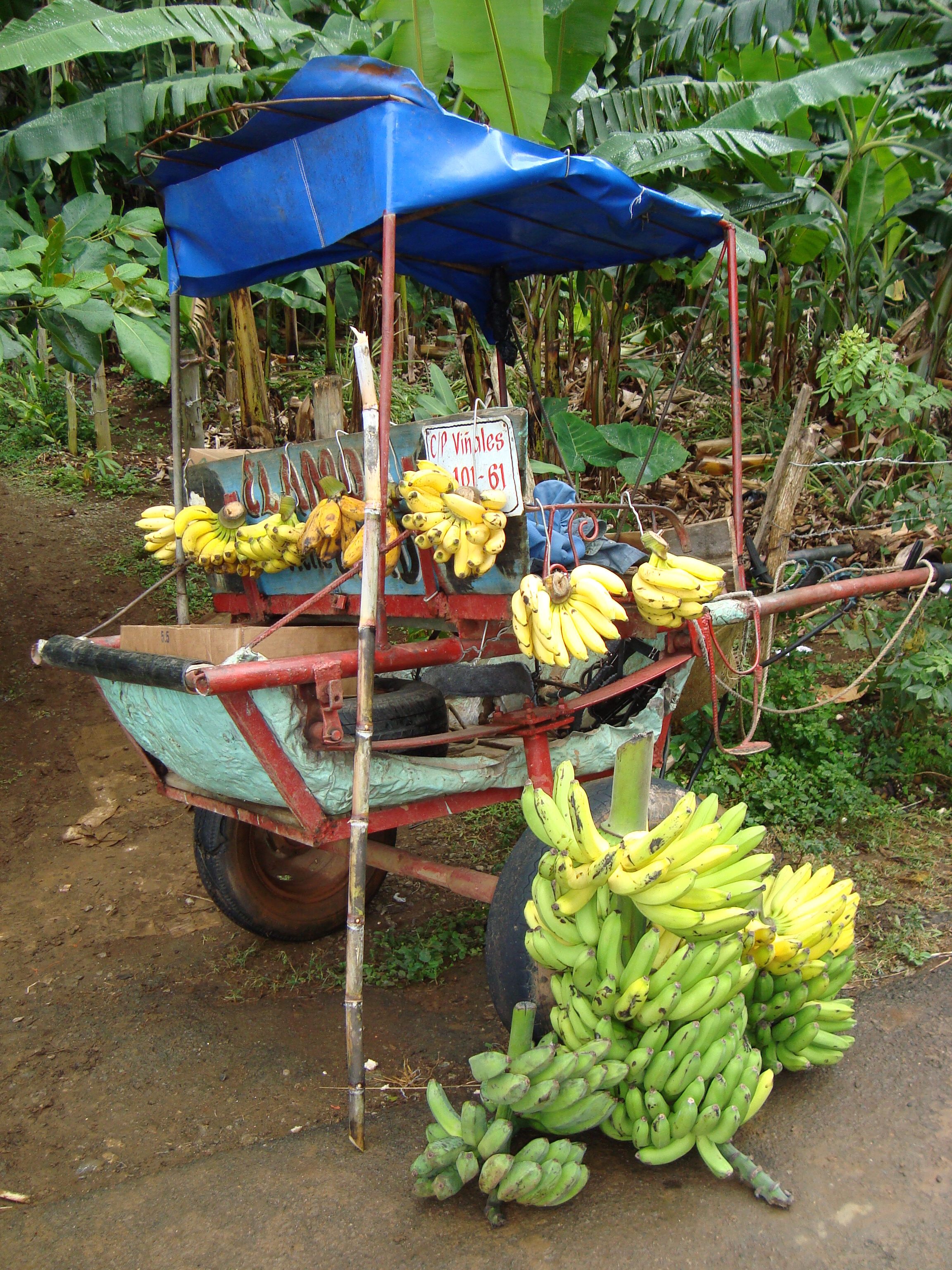 Banana Vending Cart - Near Viñales - Cuba